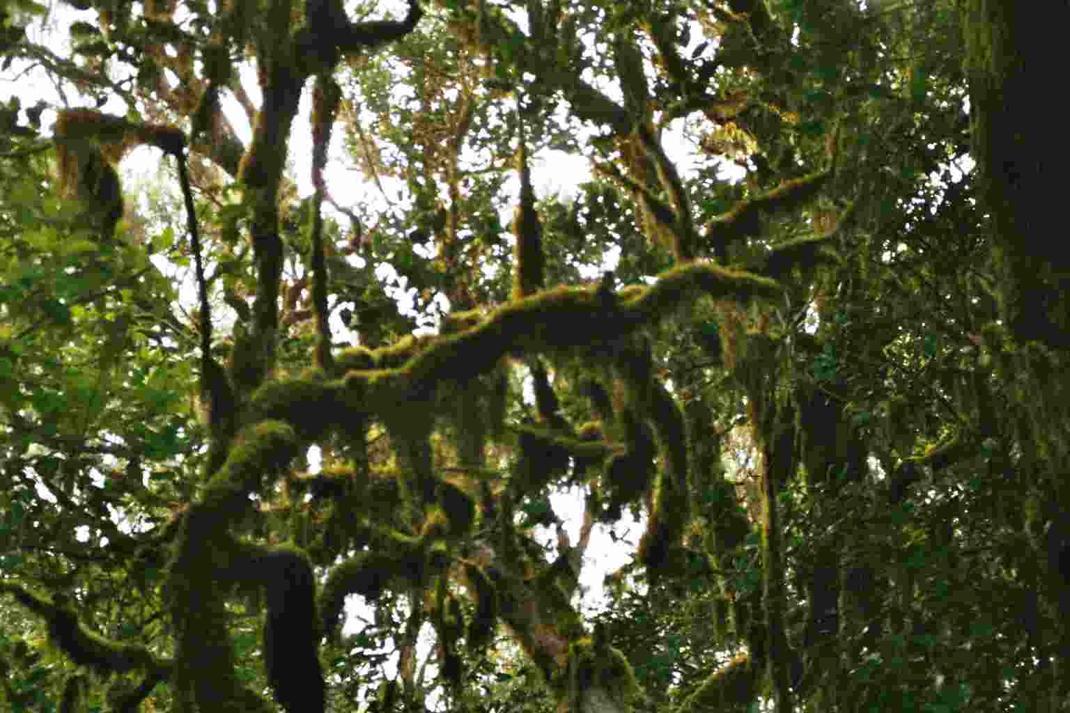 Laurisilva Trees in part of Garajonay National Park, La Gomera